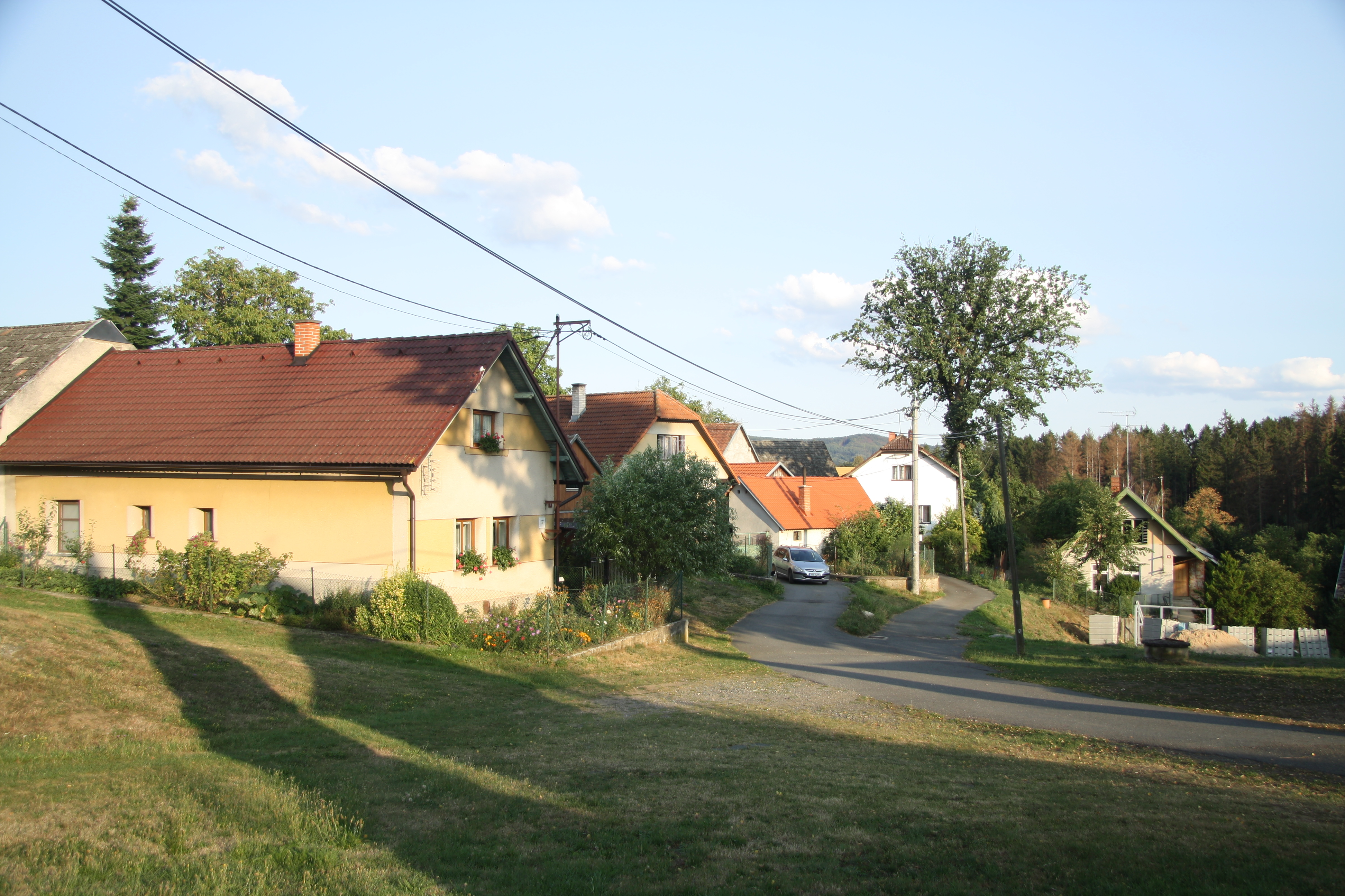 Center of Šetějovice, Benešov District.